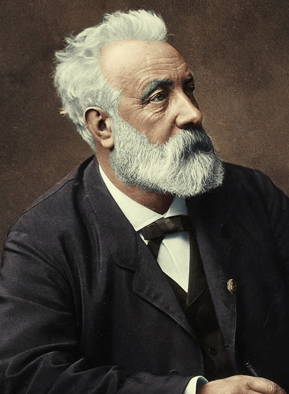 Jules Verne